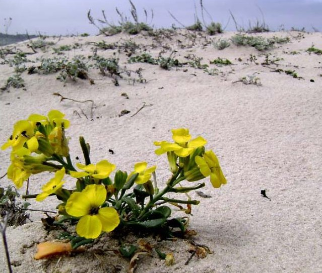 Erysimum menziesii USFWS photo, no author info